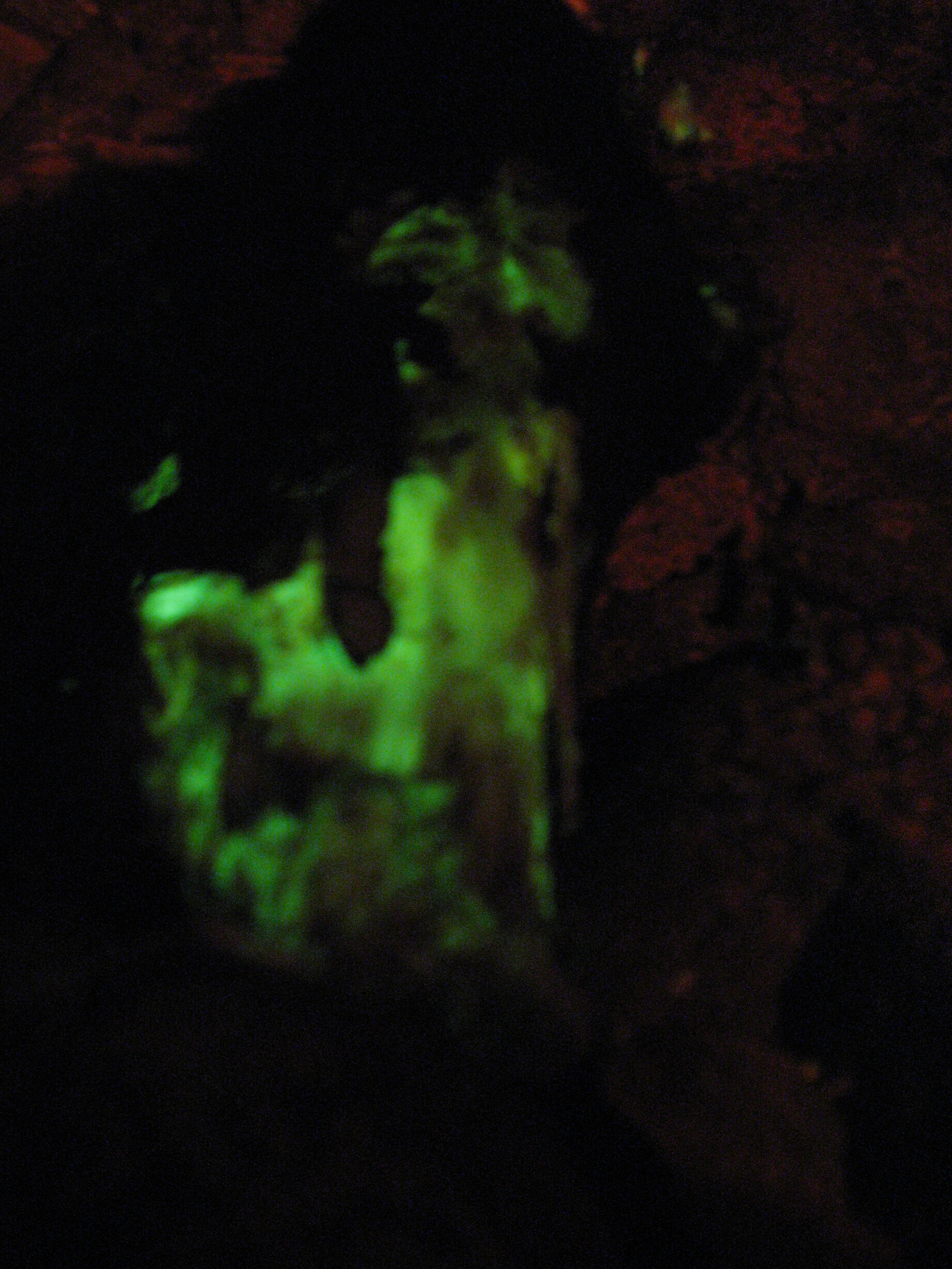 Bioluminscent Fungi on rotting tree bark.